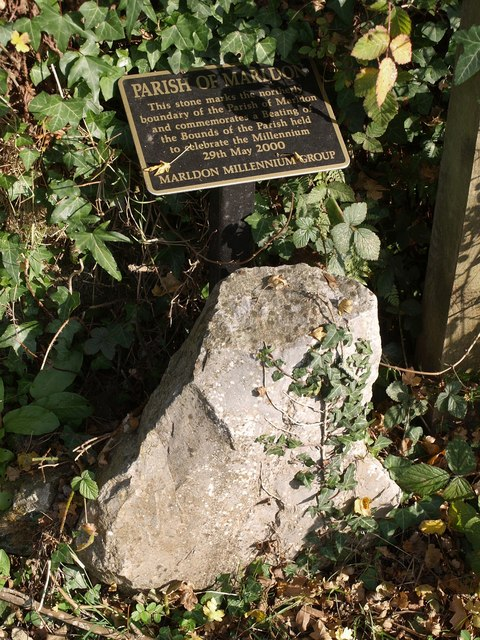 Millennium stone The piece of limestone at the bottom of Windmill Lane commemorates a beating of the Marldon parish bounds in May 2000.